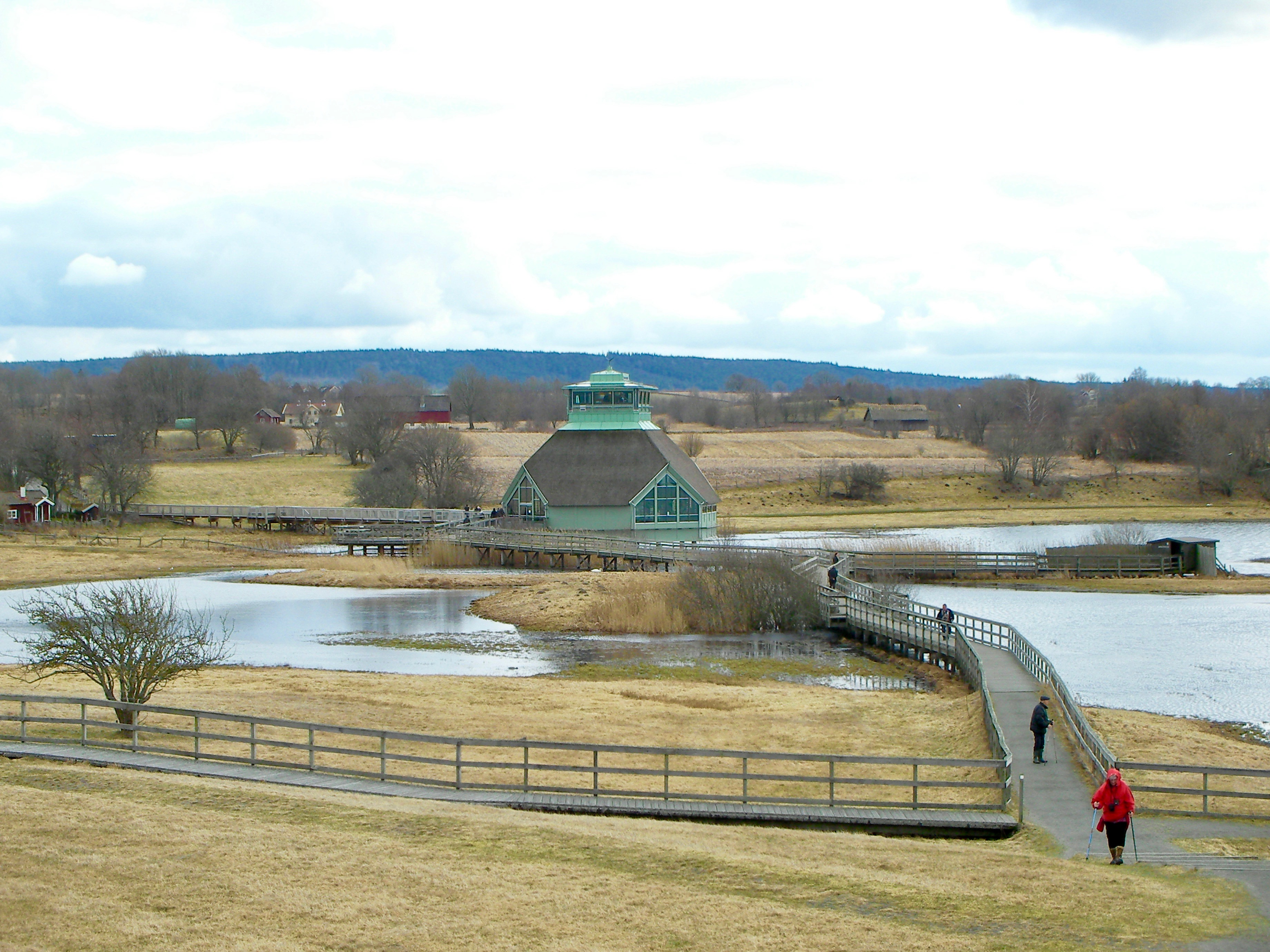 Nature museum by a lake in southern Sweden